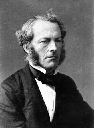 Sir George Gabriel Stokes (13 August 1819–1 February 1903)